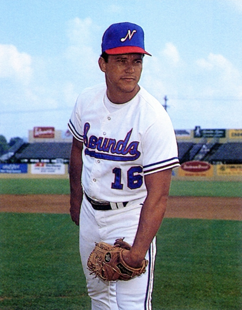 Pitcher Scott Terry of the 1987 Nashville Sounds Minor League Baseball team of the American Association